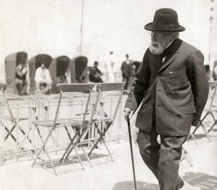 The Dutch painter Jozef Israëls (1824-1911) walking on the beach (Scheveningen) shortly before his death, Netherlands, Scheveningen, 1911.